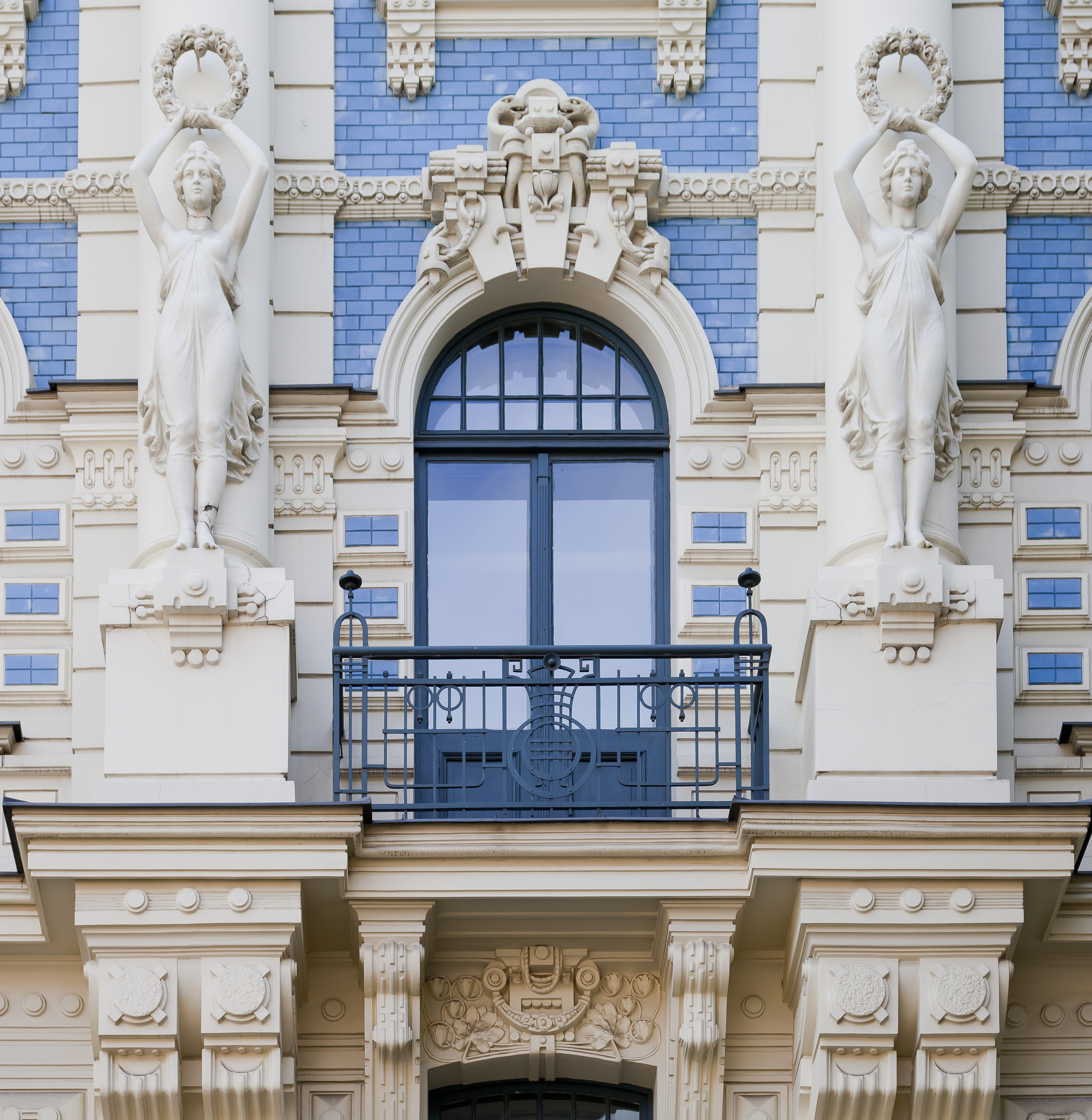 Building in Strelnieku Iela 4a, Riga, Latvia